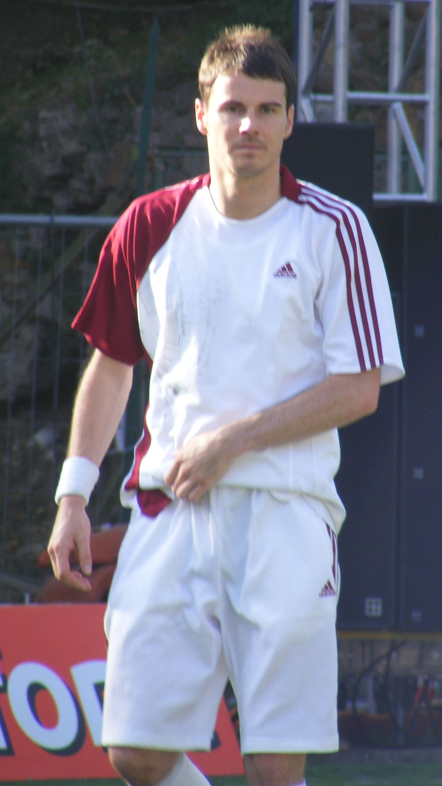 Billy Wingrove at the 2009 UEFA Champions League Festival in Rome.